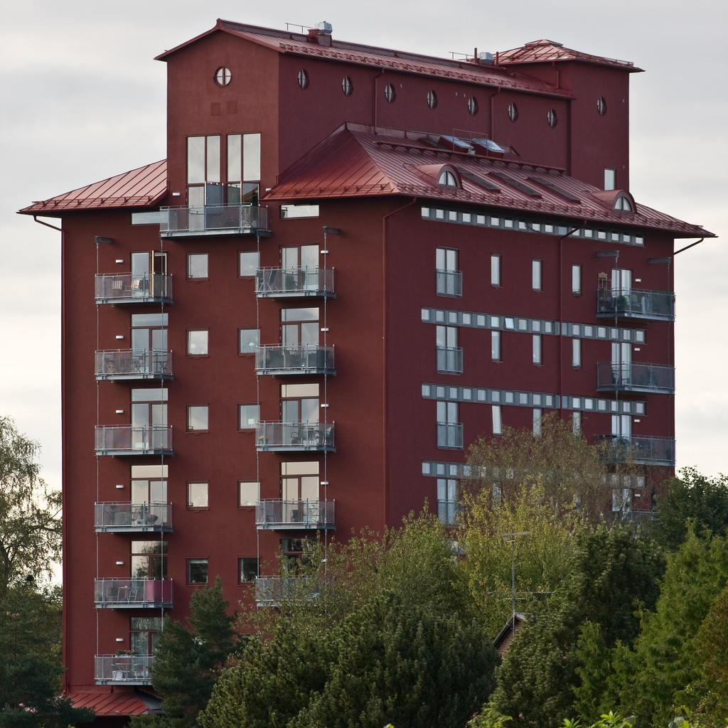 Lagerhuset Eslöv Sweden